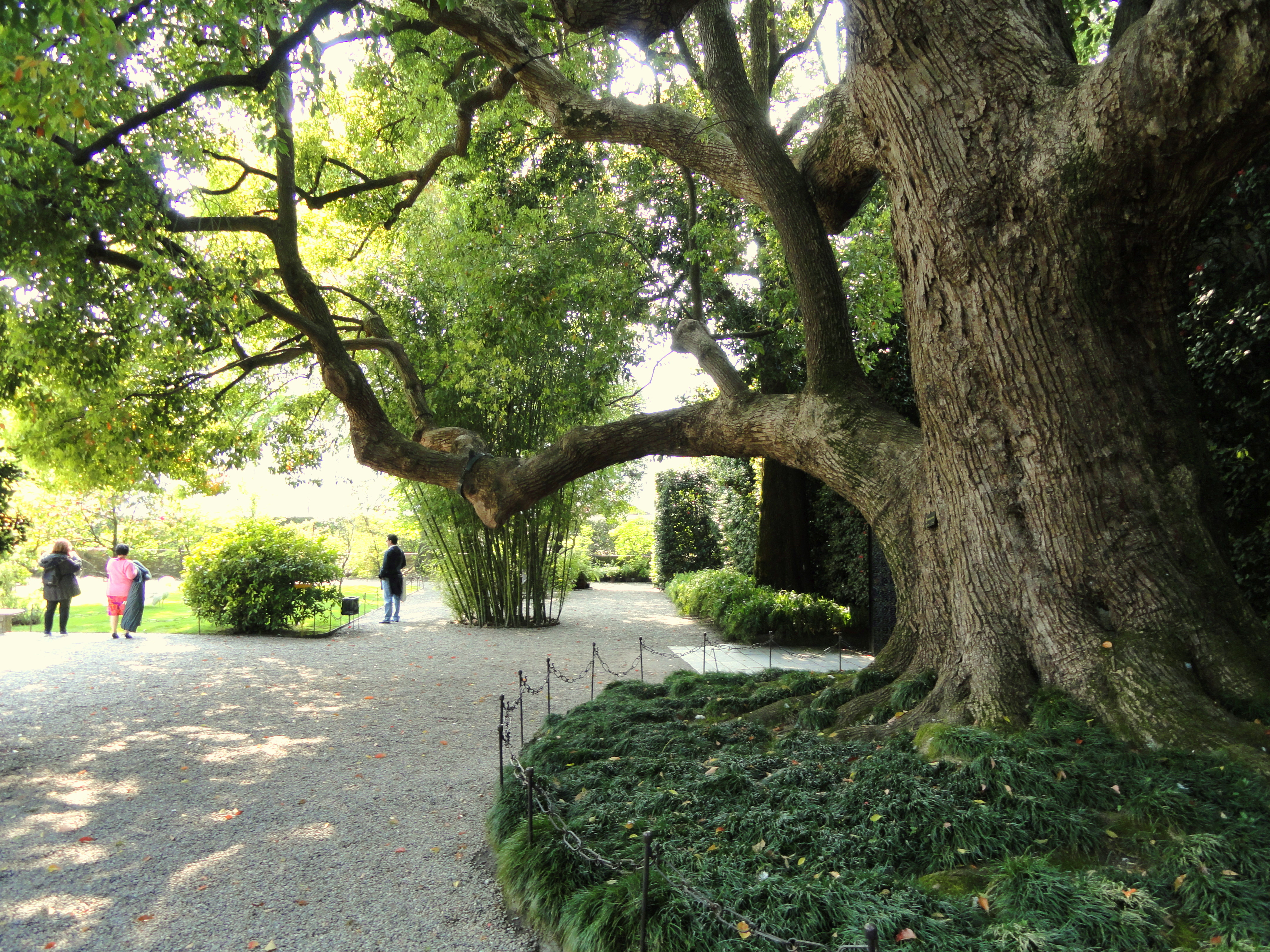 Cinnamomum Camphora in the Garden on Isola Bella, Lake Maggiore, Italy.